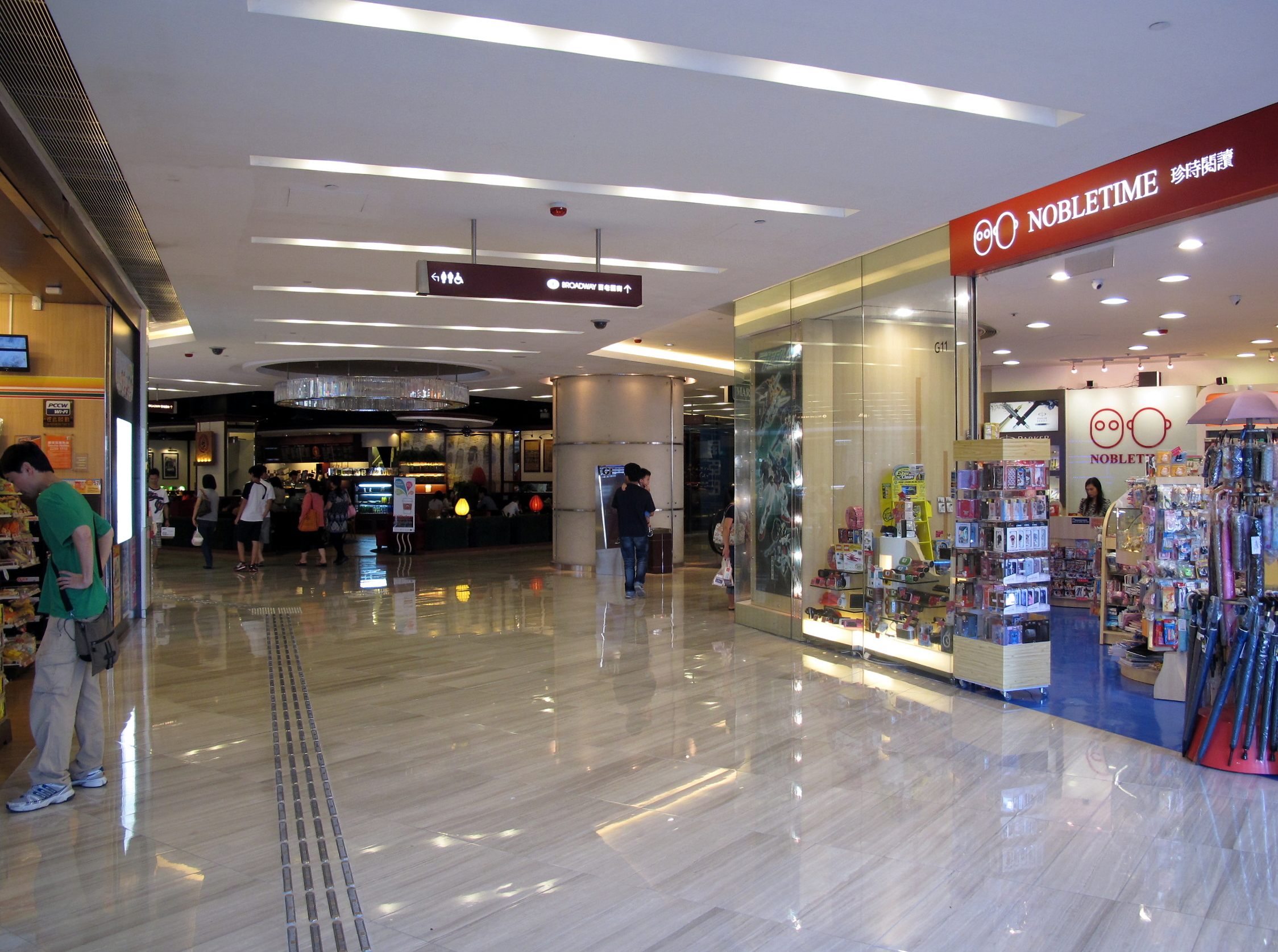 Manhattan Midtown Interior 曼克頓山商場 "曼坊"。